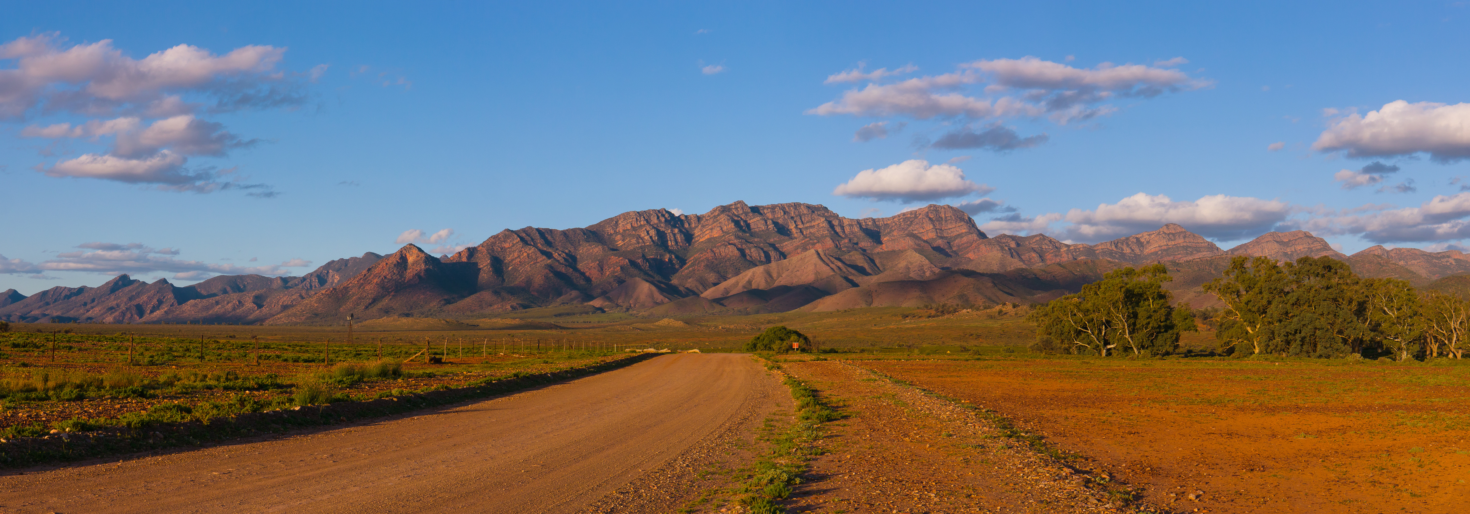 Ikara-Flinders Ranges National Park, SA: Wilpena Pound at sunset, viewed from the Moralana Scenic Drive near the Parachilna Road.